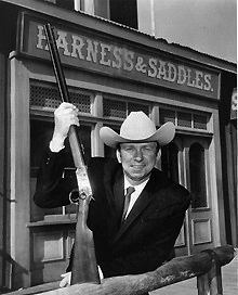 Slim Pickens in 1972